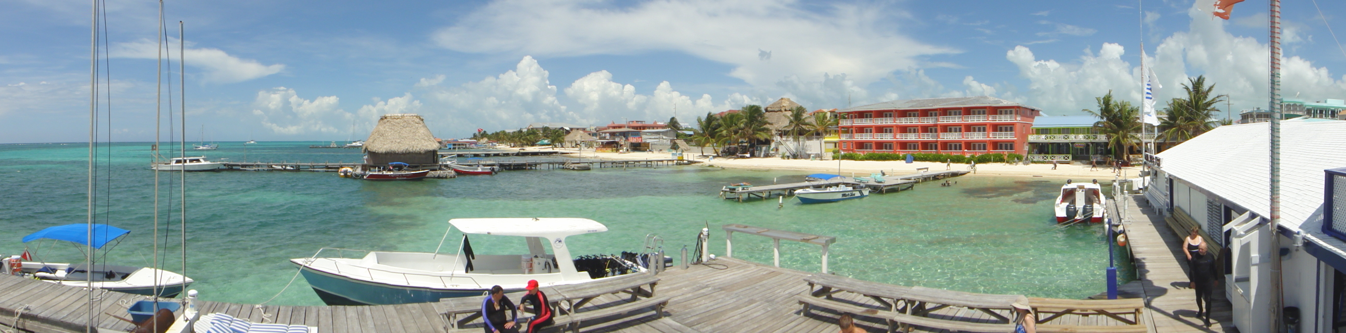 Pano shot with the Sony TX5. this is Amigos del Mar diving dock and shop in Ambergris Caye Belize. nice way to do surface interval.